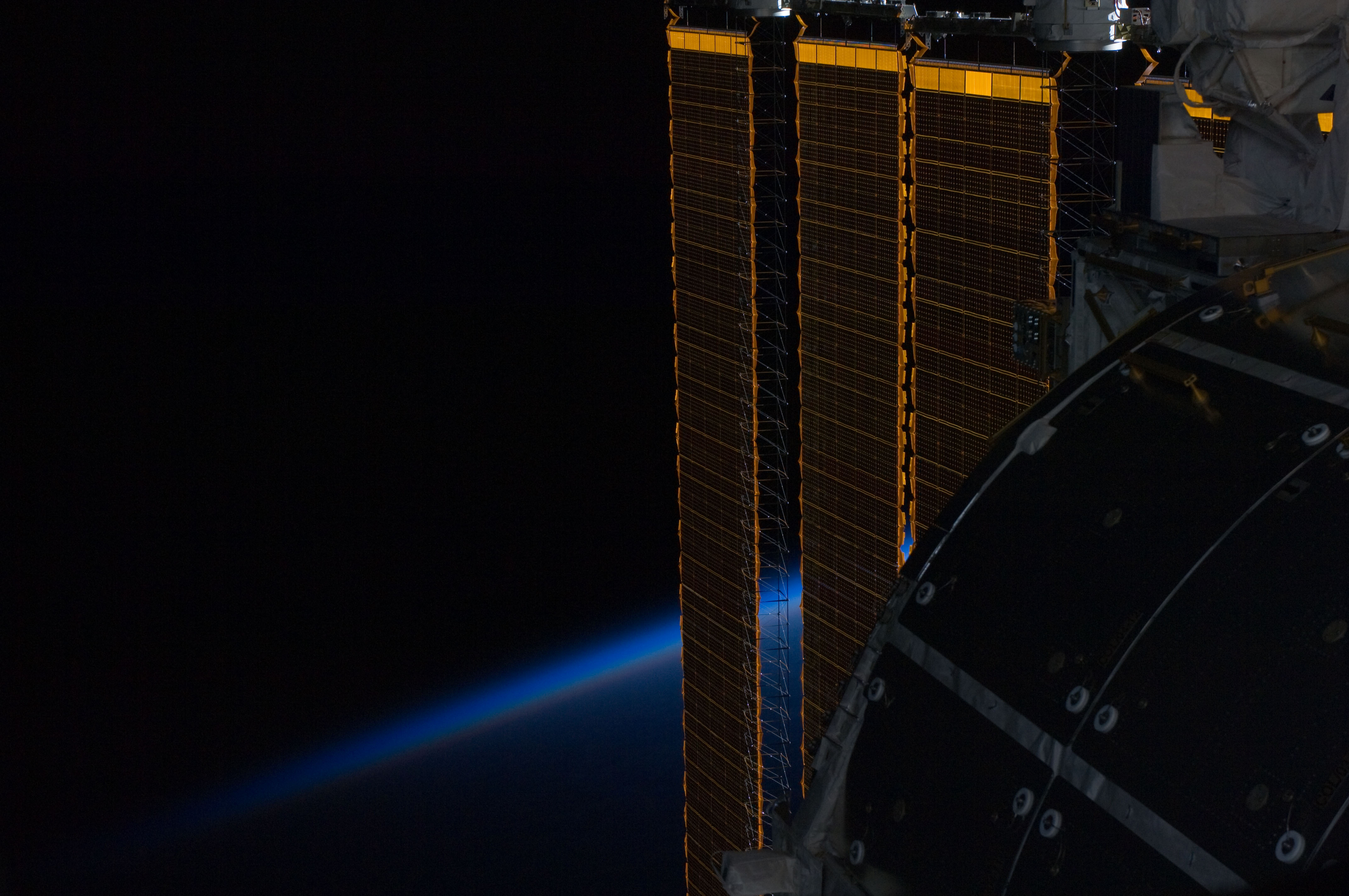 This image, taken during the fifth and final space walk of the STS-127 mission, is of one of the International Space Station's solar panels intersecting Earth's horizon.While astronauts Tom Marshburn and Christopher Cassidy (both out of frame), made their spacewalk on July 24, the two mission specialists and the crews of STS-127 and the International Space Station's Expedition 20, were able to enjoy scenes such as this one of one of the orbital outpost's solar panels intersecting Earth's horizon. Eleven astronauts and cosmonauts remained inside the International Space Station and the shuttle to which it was docked, while the two suited astronauts continued work on the orbital outpost.